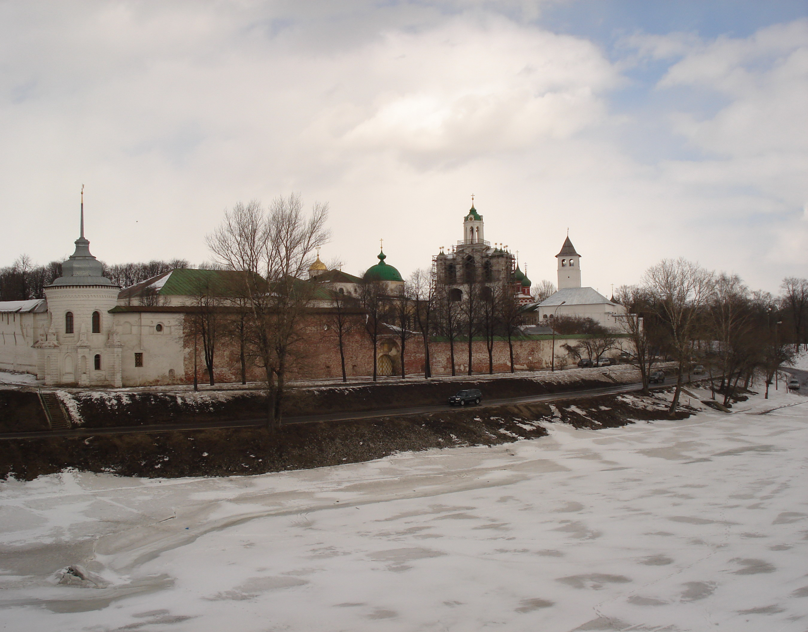 Spaso-Preobrazhensky Monastery (Yaroslavl)